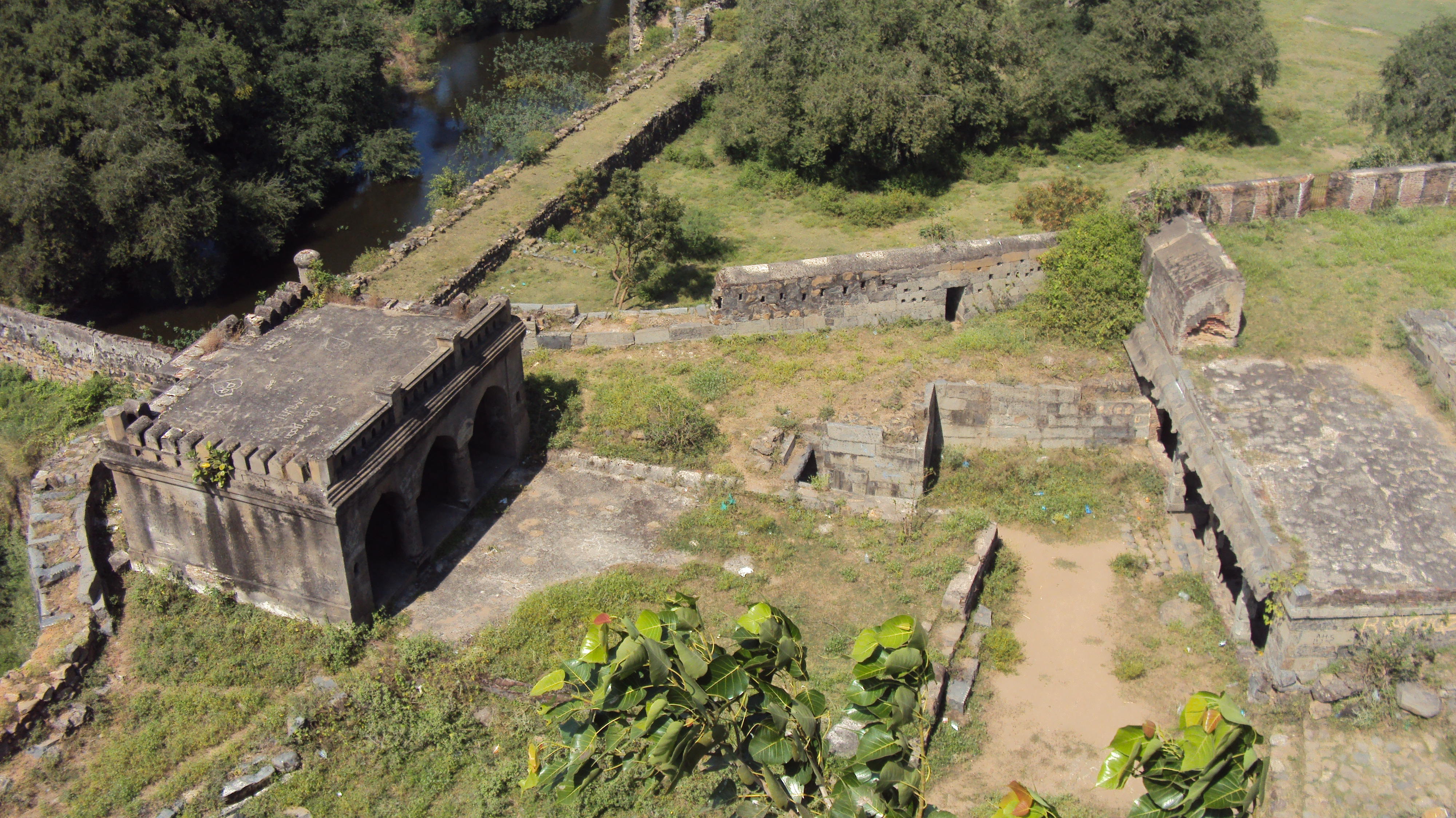 located near perambalur,on the trichy chennai highway